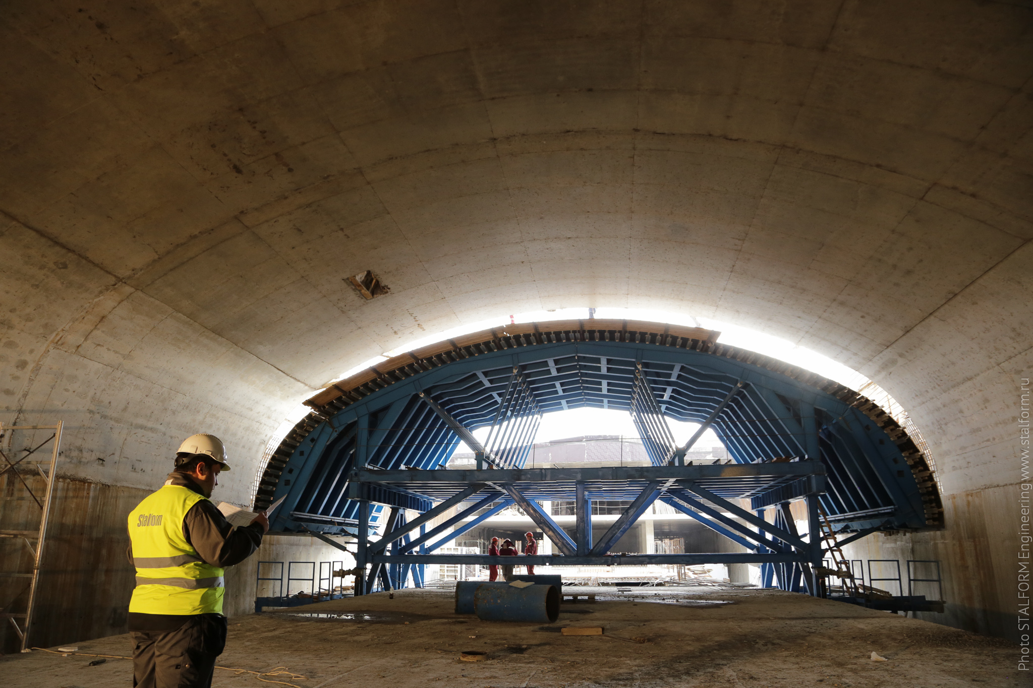 State of the art in the construction of the subway in Moscow. Mobil formwork systems/info